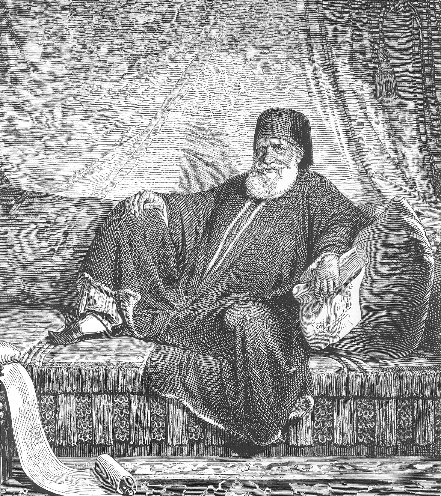 Muhammad Ali Pascha